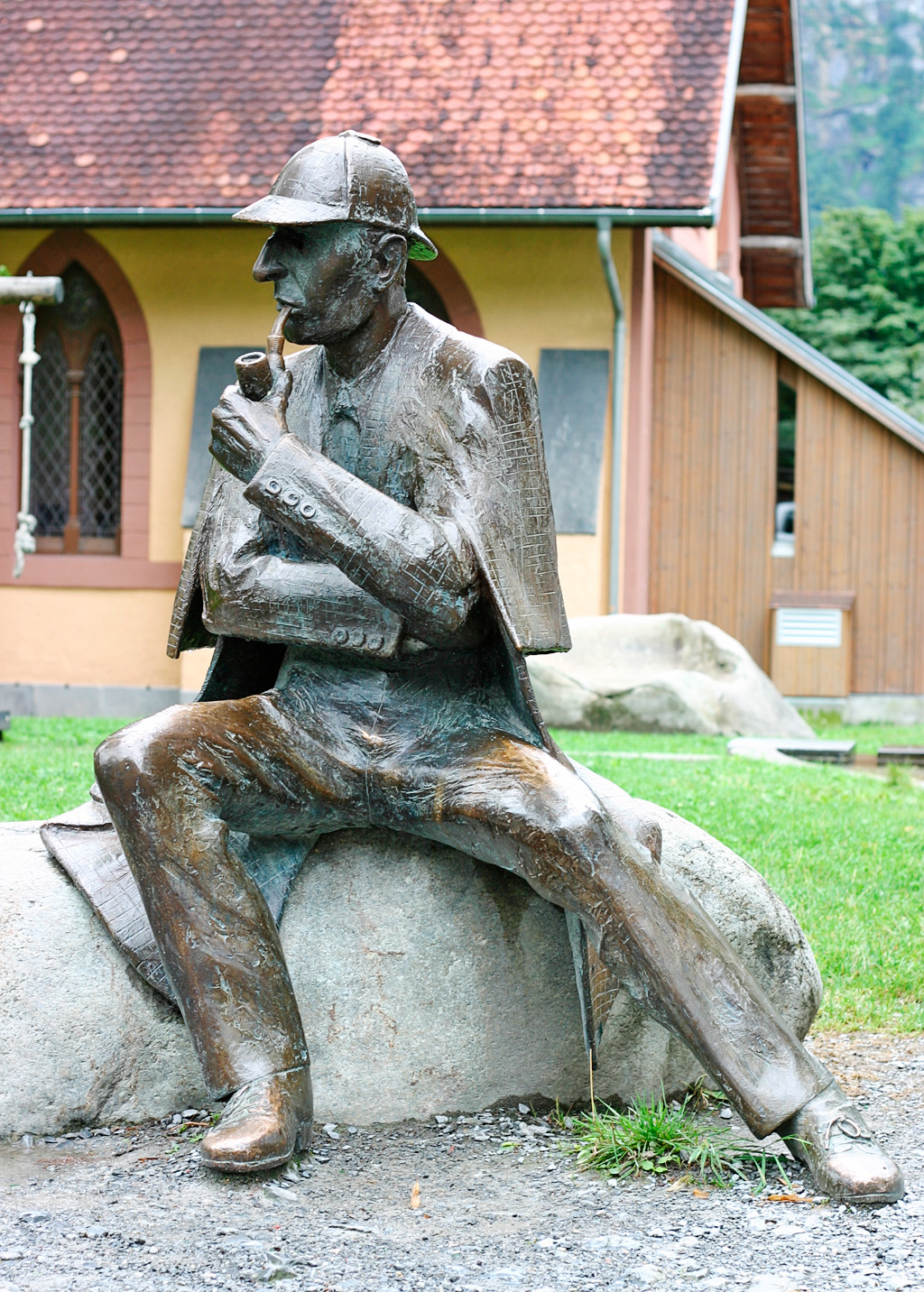 Statue of Sherlock Holmes at Meiringen, Switzerland. Created by British sculptor John Doubleday. Unveiled September 10, 1988